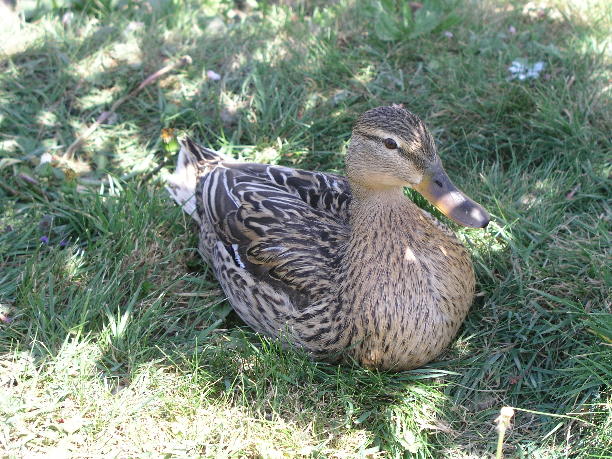 A female mallard sitting in grass, in the shade of a tree.